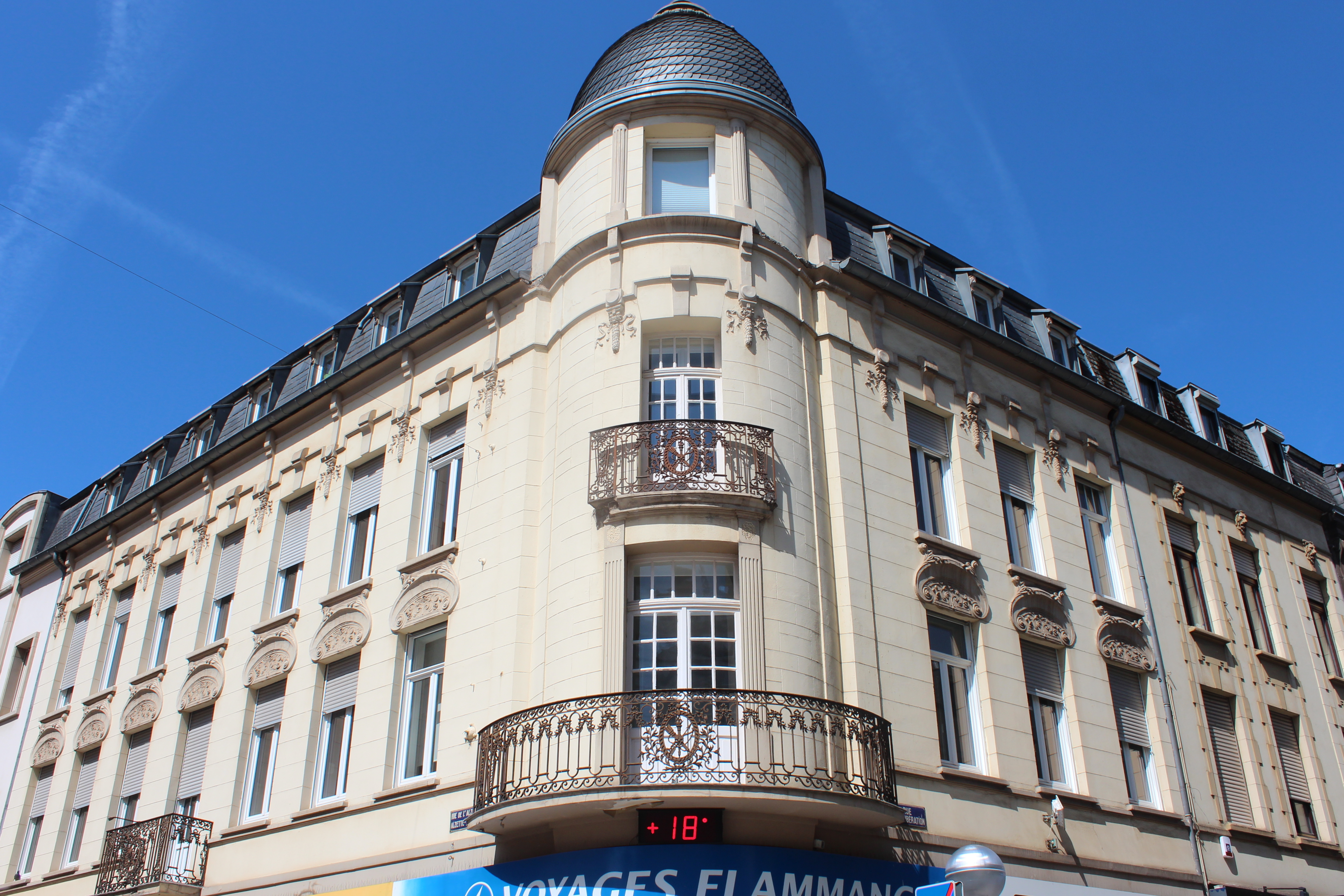 60 Rue de l'Alzette, corner Rue de la Libération, in Esch.sur.Alzette.